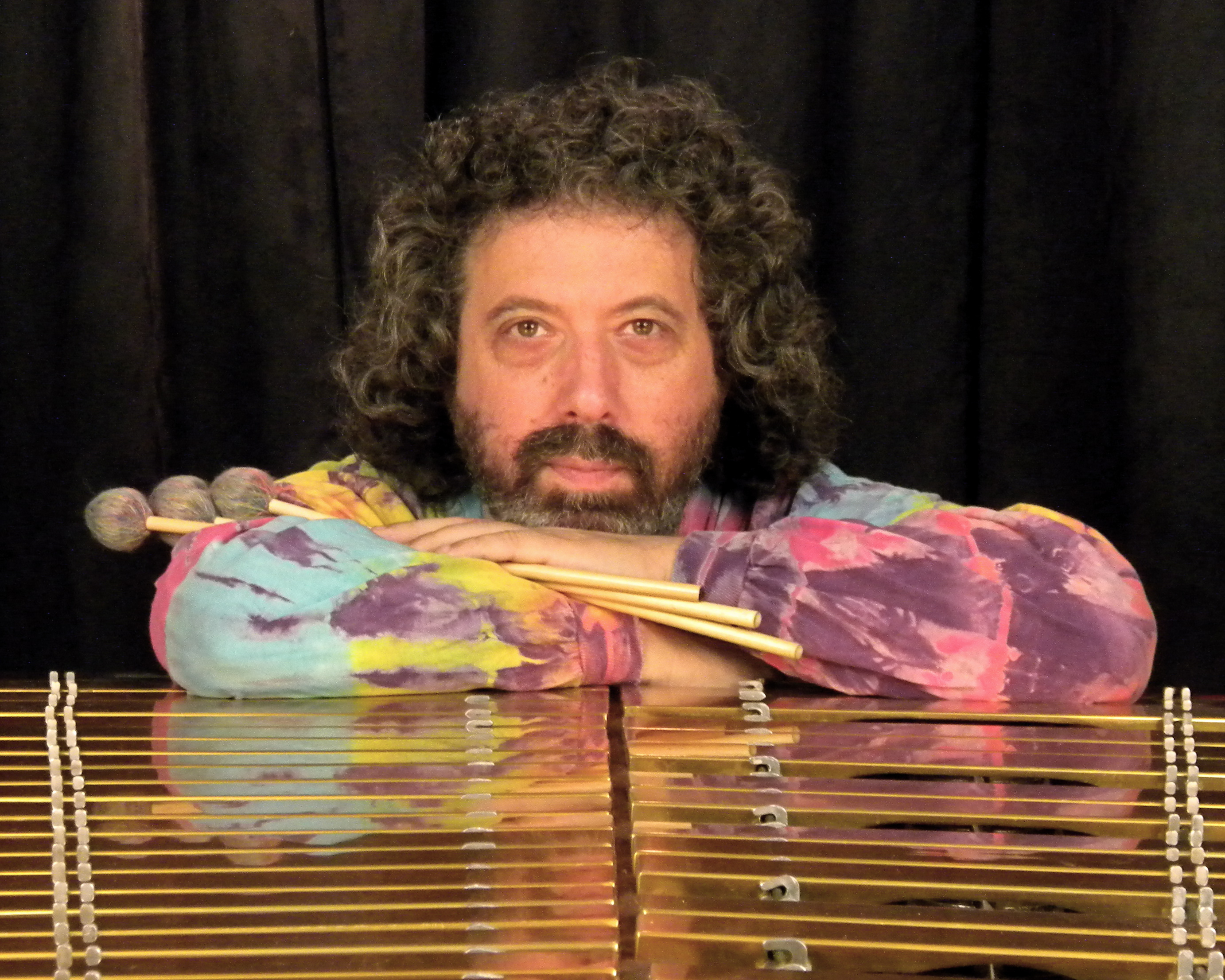 my promo photo